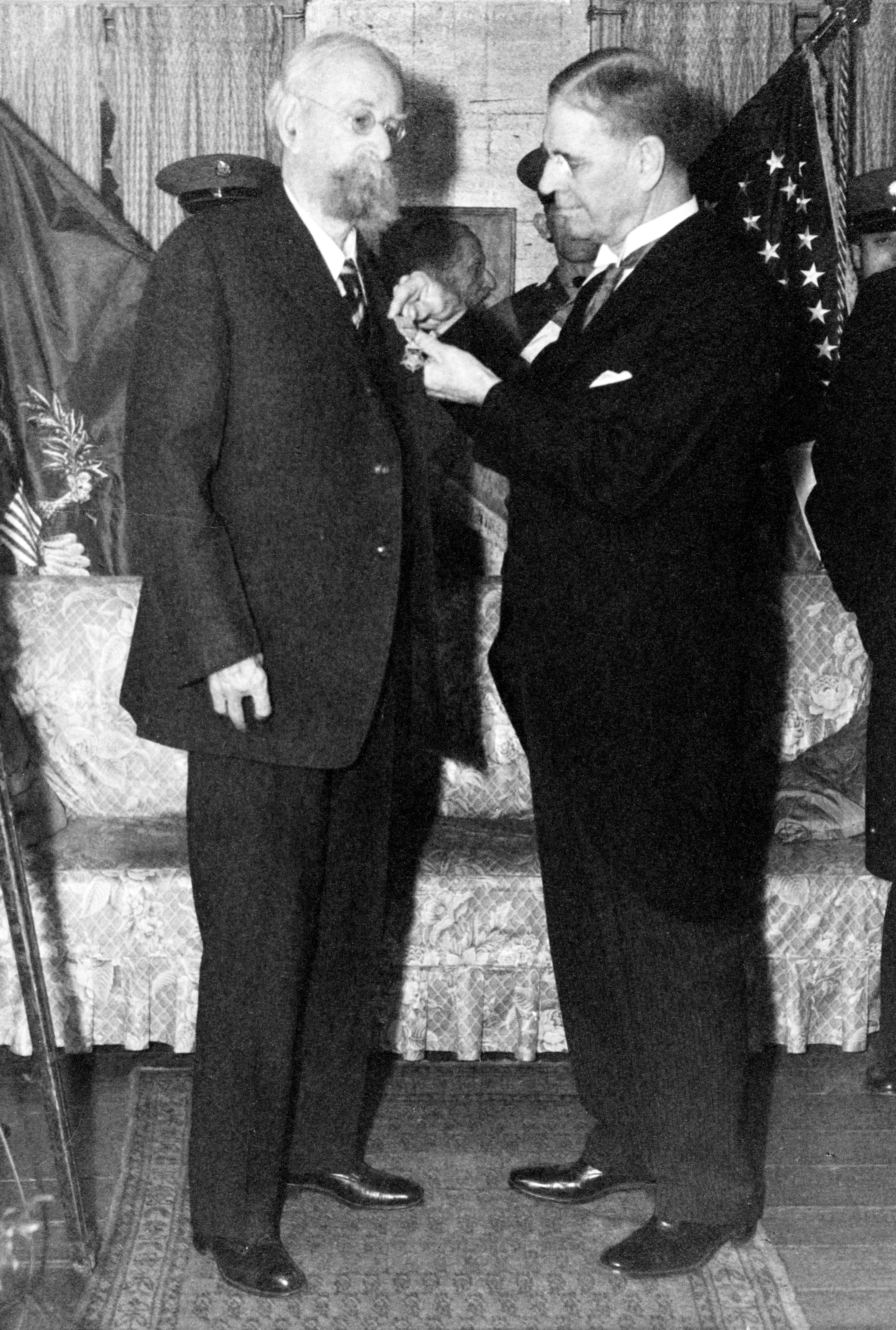 Photograph of Adolphus Greely receiving the Medal of Honor from Secretary of War George Dern, at 2121 O Street, Washington, D.C.